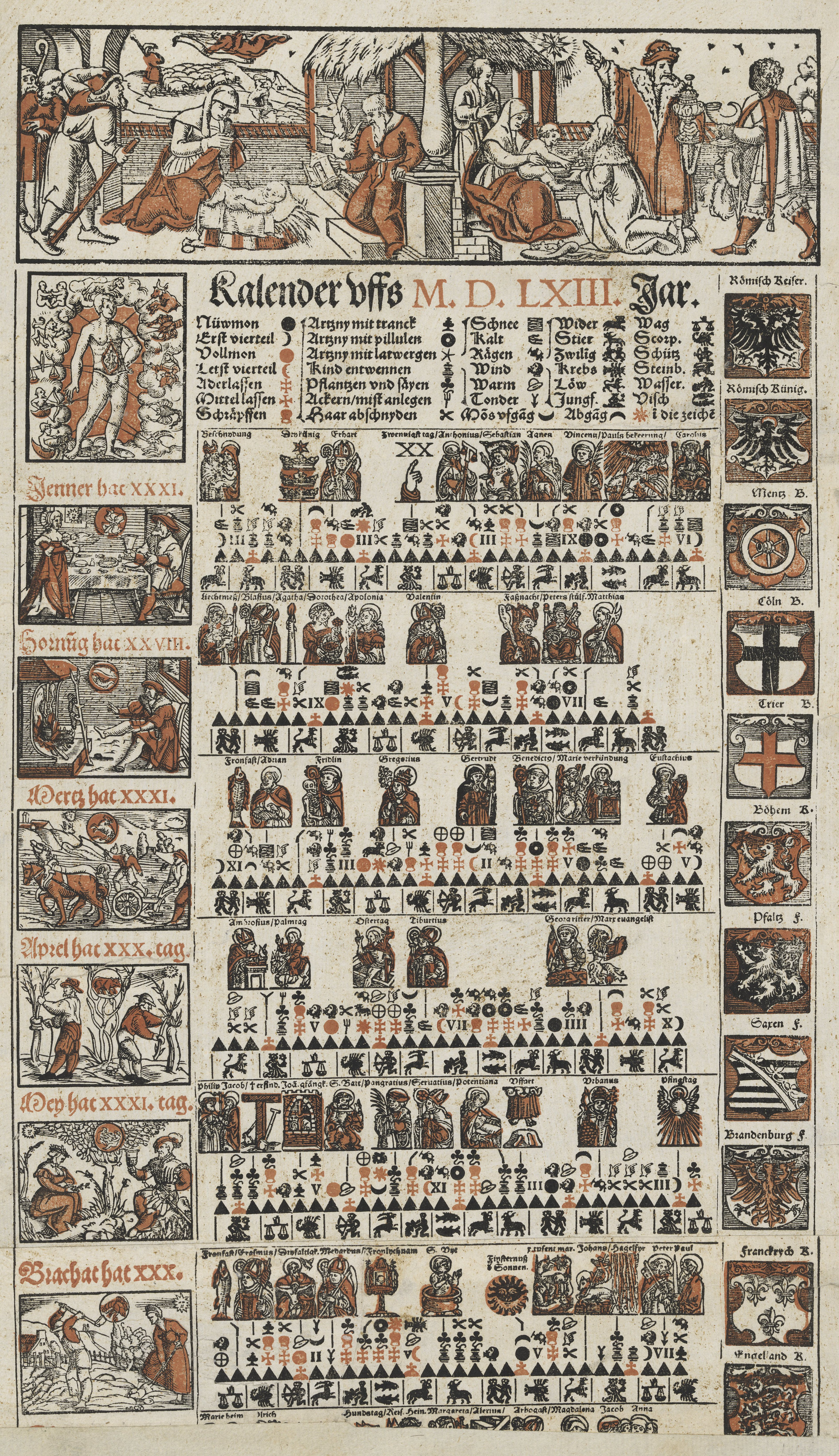 Print in red and black, woodcut at the top: "Adoration of the Shepherds" and "Adoration of the Magi," to the left: 1 male bloodletting, including 6 months with pictures January to June, at the right edge are 11 of Coats of Arms (emperors, kings, electors)